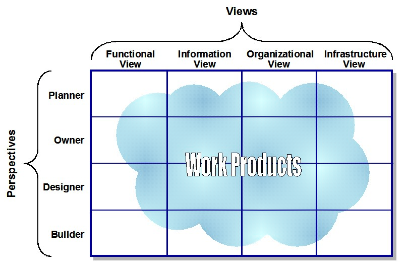 TEAF Matrix of Views and Perspectives